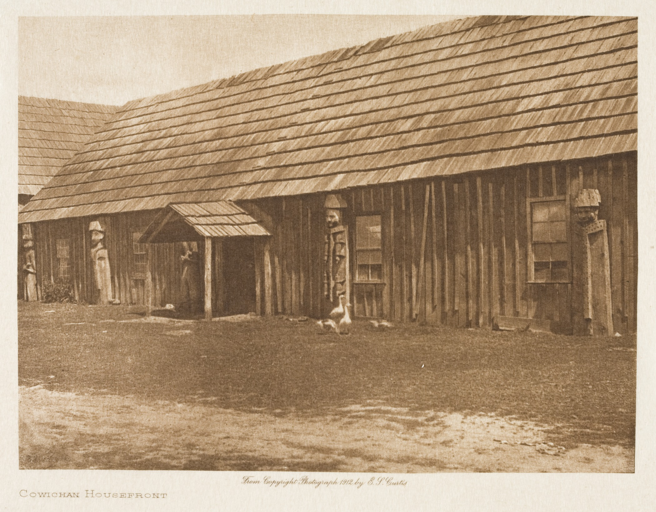 Facade of Cowichan dwelling. From The North American Indian by Edward S. Curtis. United States, 1912 Photographs Photogravure on tissue Gift of Mark and Pam Story (AC1997.271.26) Photography